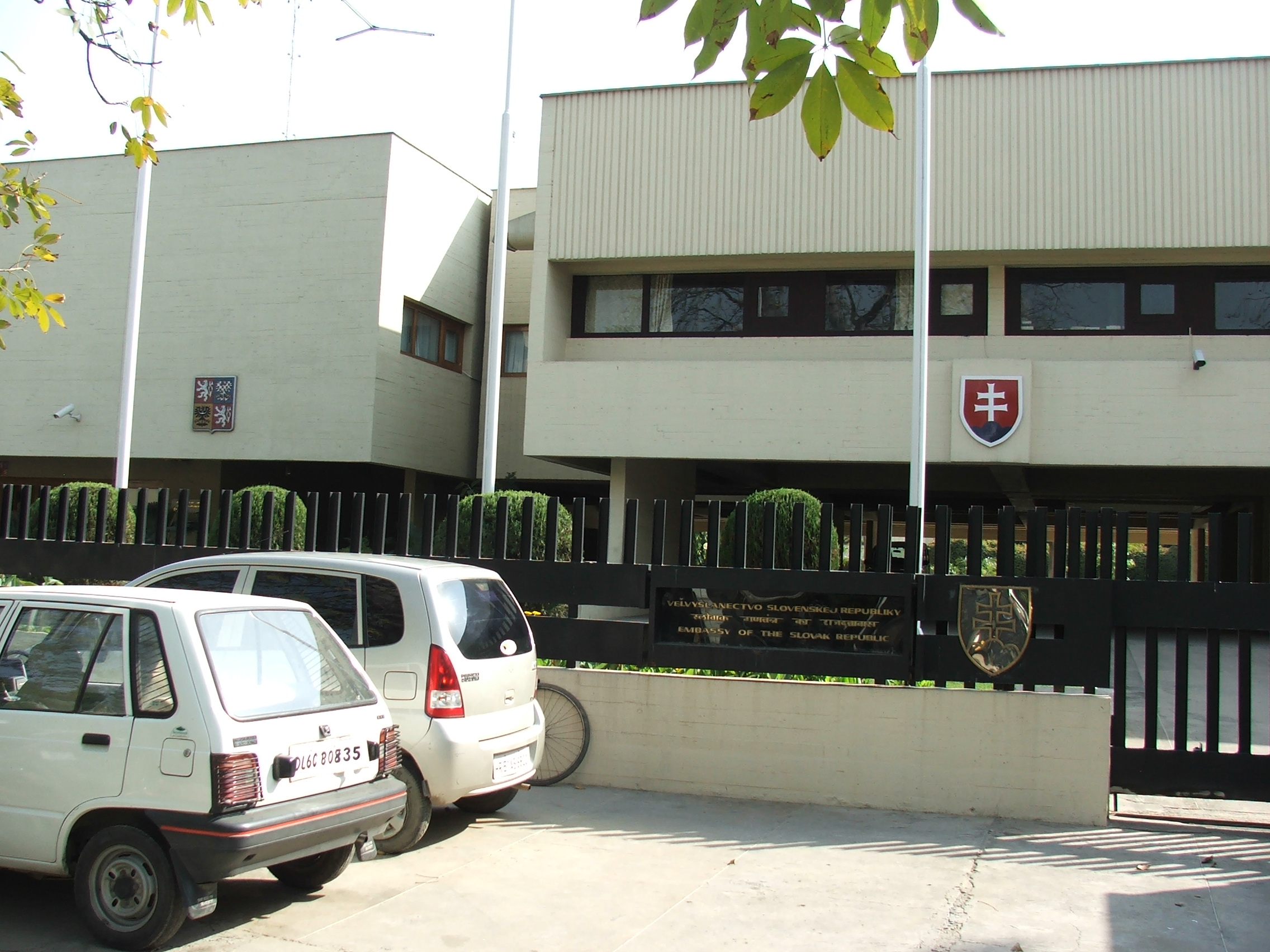 Embassy of the Czech republic and Slovakia in Delhi, India.